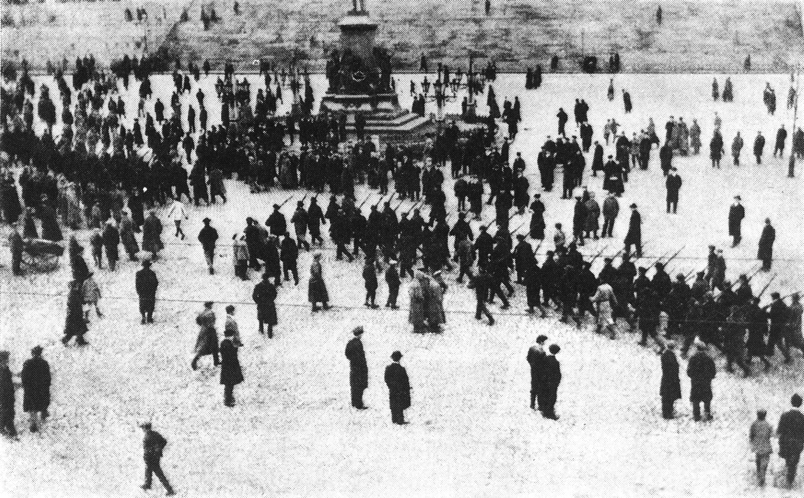 "Helsinki under socialist terror", photograph in the Gothenburg weekly Hvar 8 dag.